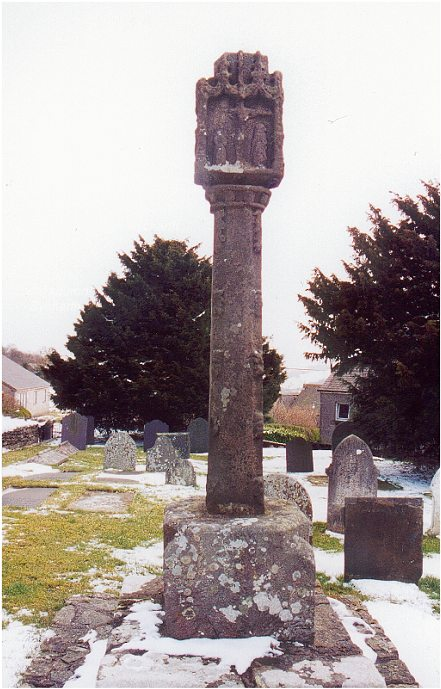 Late Mediæval stone cross in St Mary's parish churchyard, Derwen, Denbighshire